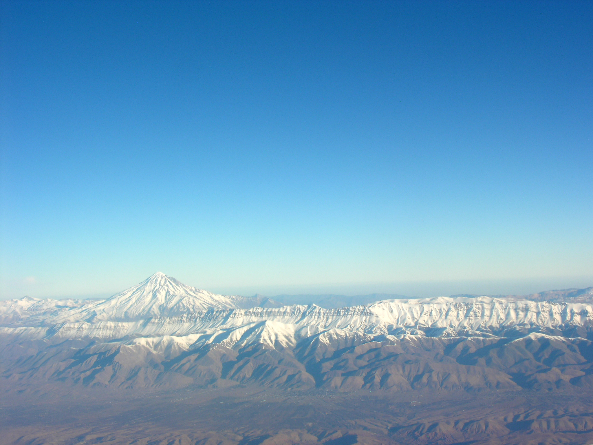 Aerial View of Damavand